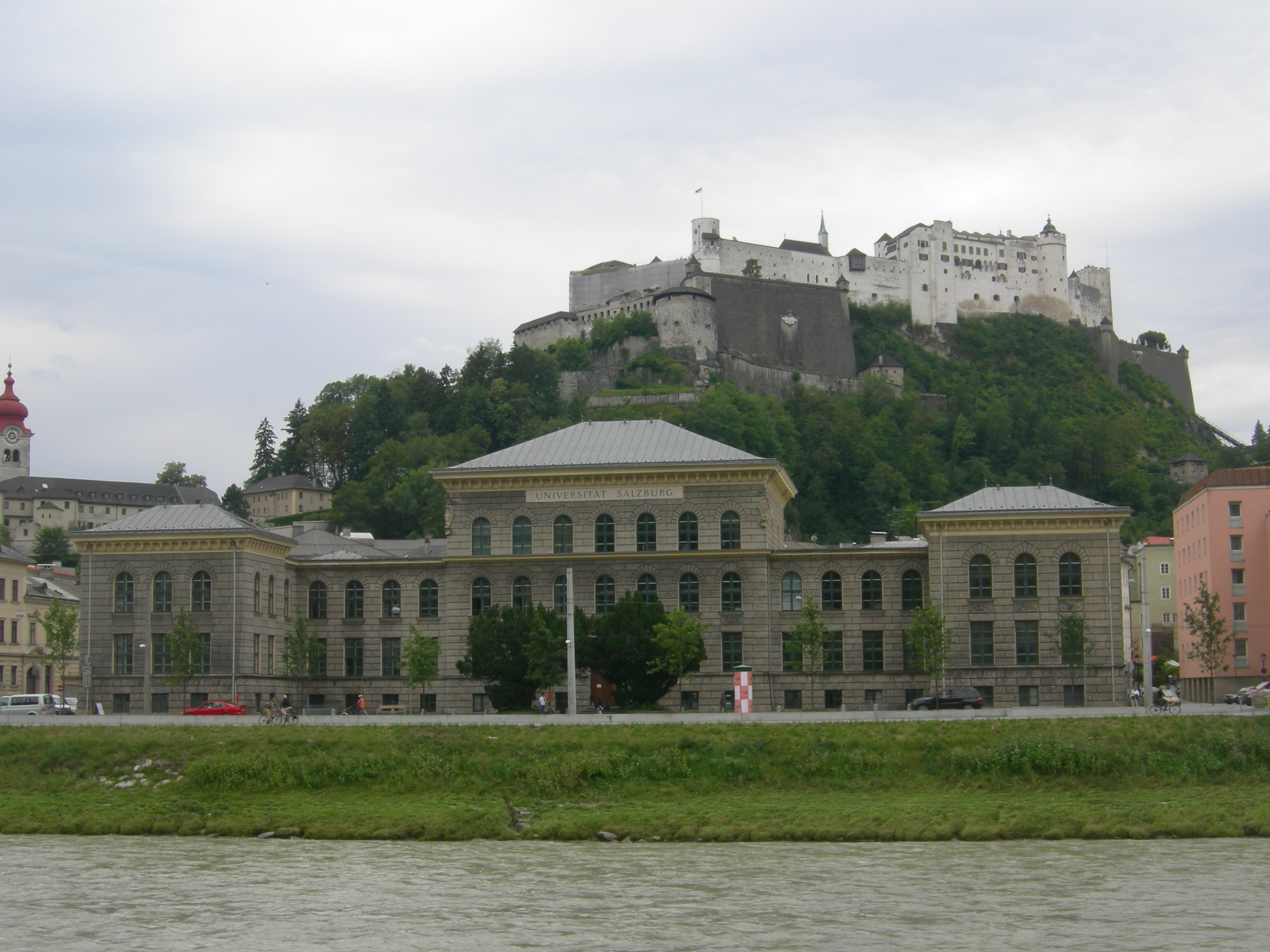 Building of the former Salzburg Industrial School, now University of Salzburg, Faculty of Social Sciences, and the Fortress of Salzburg